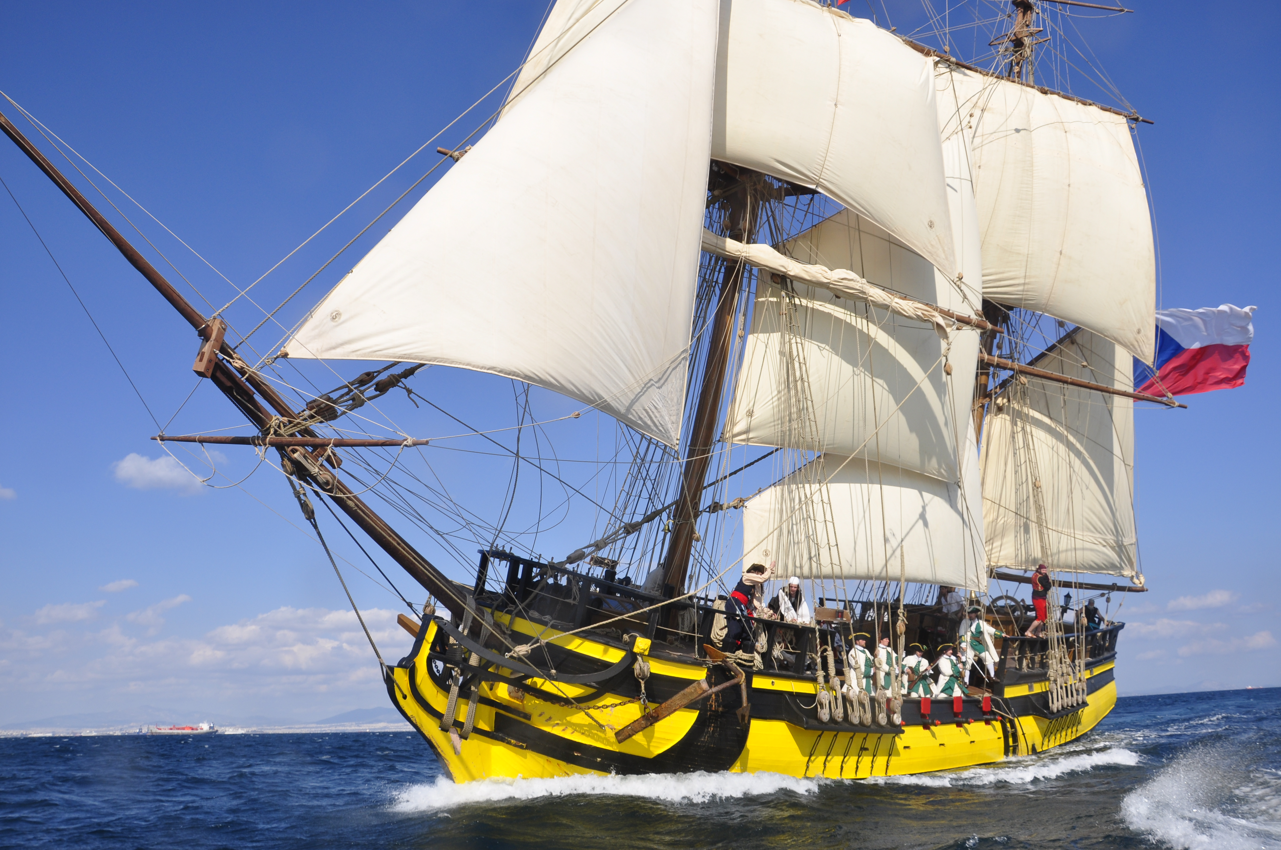 Brig La Grace on the open sea.